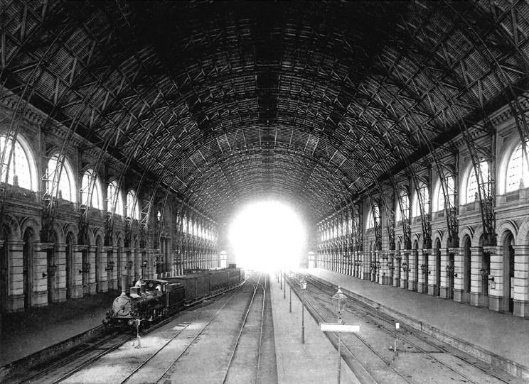 The old station Lehrter Bahnhof in Berlin